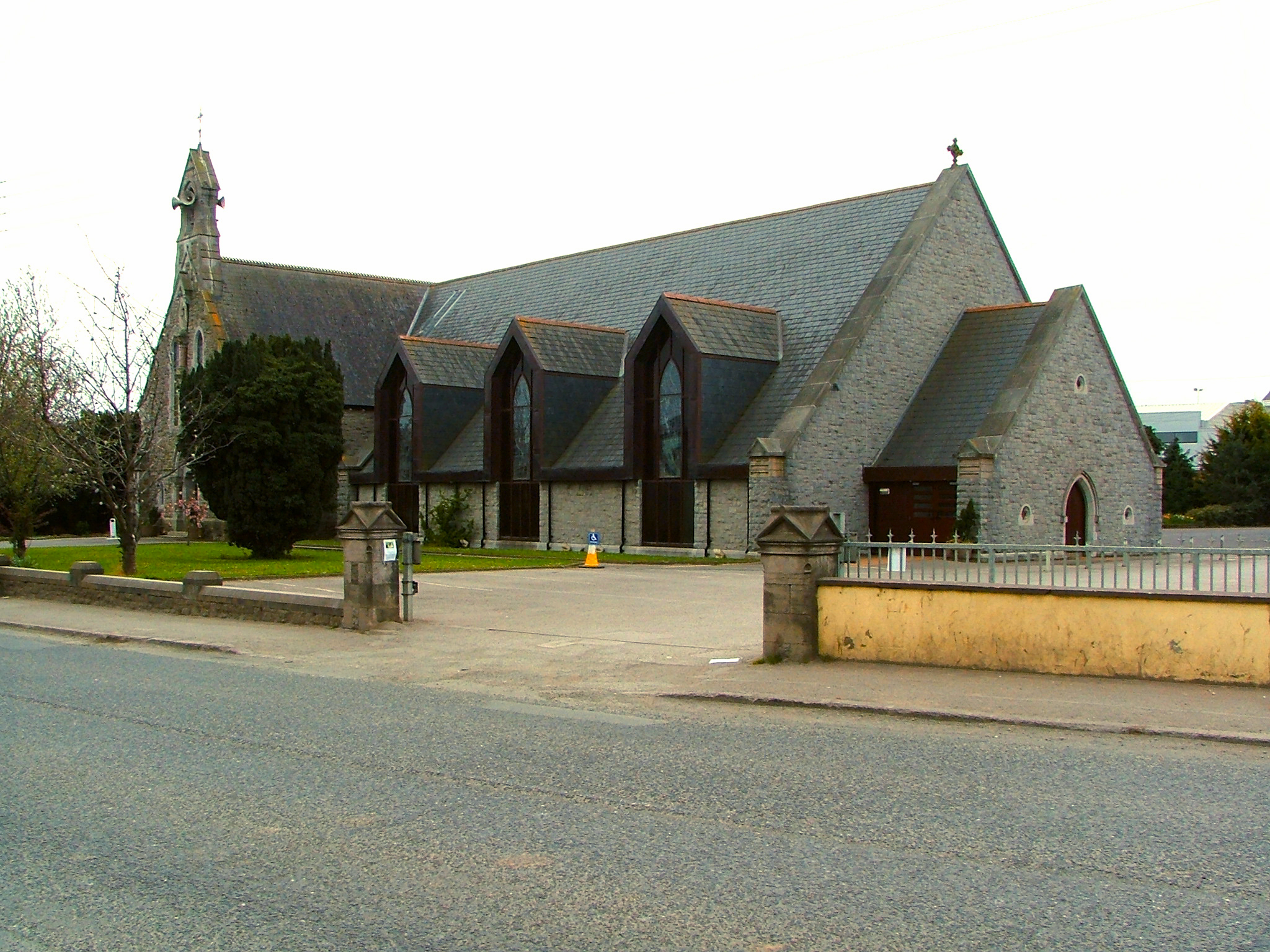 The image is incorrectly named (doh!), the church is actually the Church of the Immaculate Conception, Ashbourne, Co. Meath, Ireland.